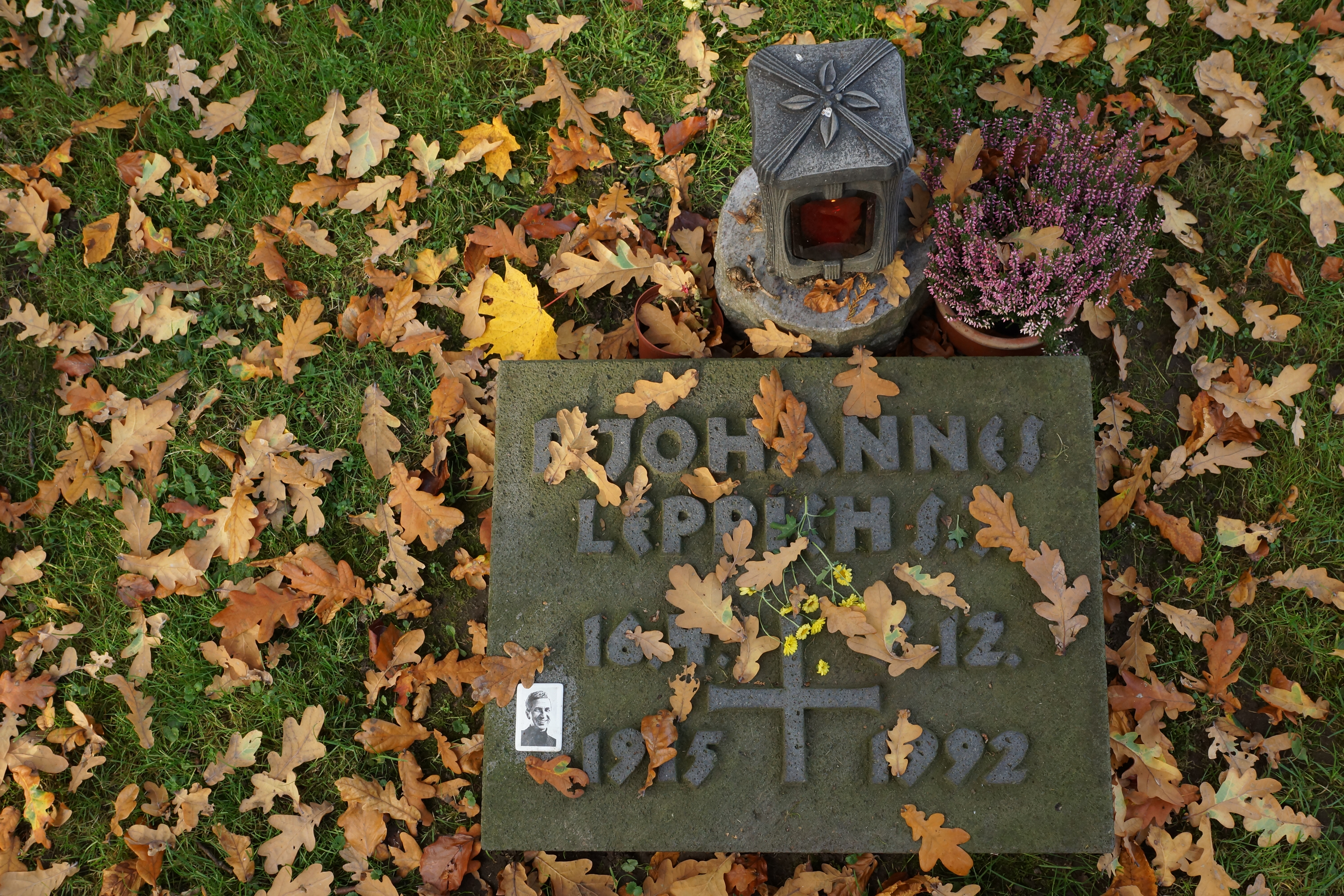 The grave of Padre Johannes Leppich. Padre Leppich one of the most famous Street preacher in Germany after WWII.